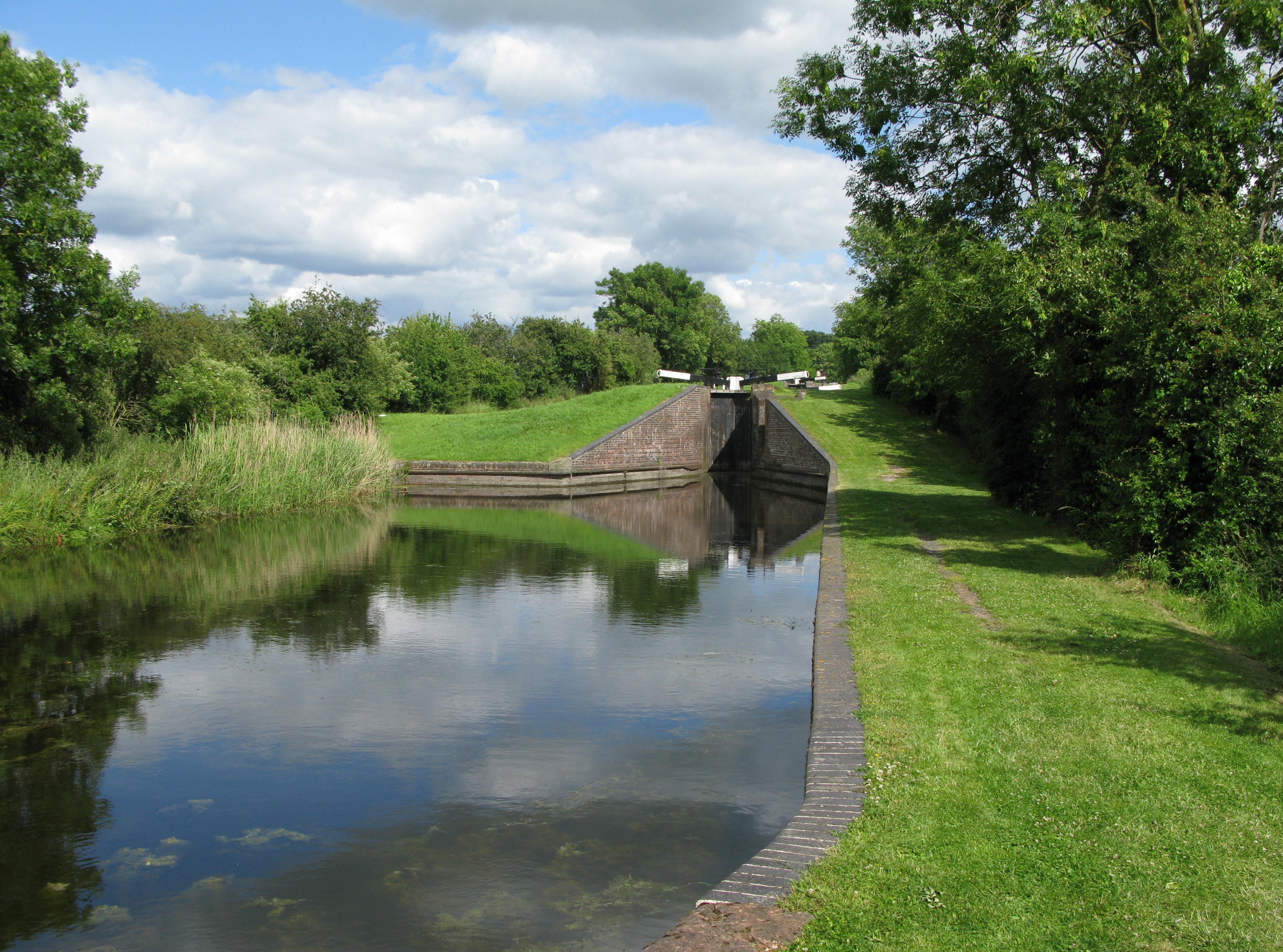 A photo of Hanbury locks on the Droitwich Canal